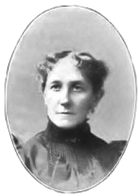 Mary C. Seward - aka Mary Holden (Coggeshall) Seward, Mrs. Theodore F. Seward, "Agnes Burney"